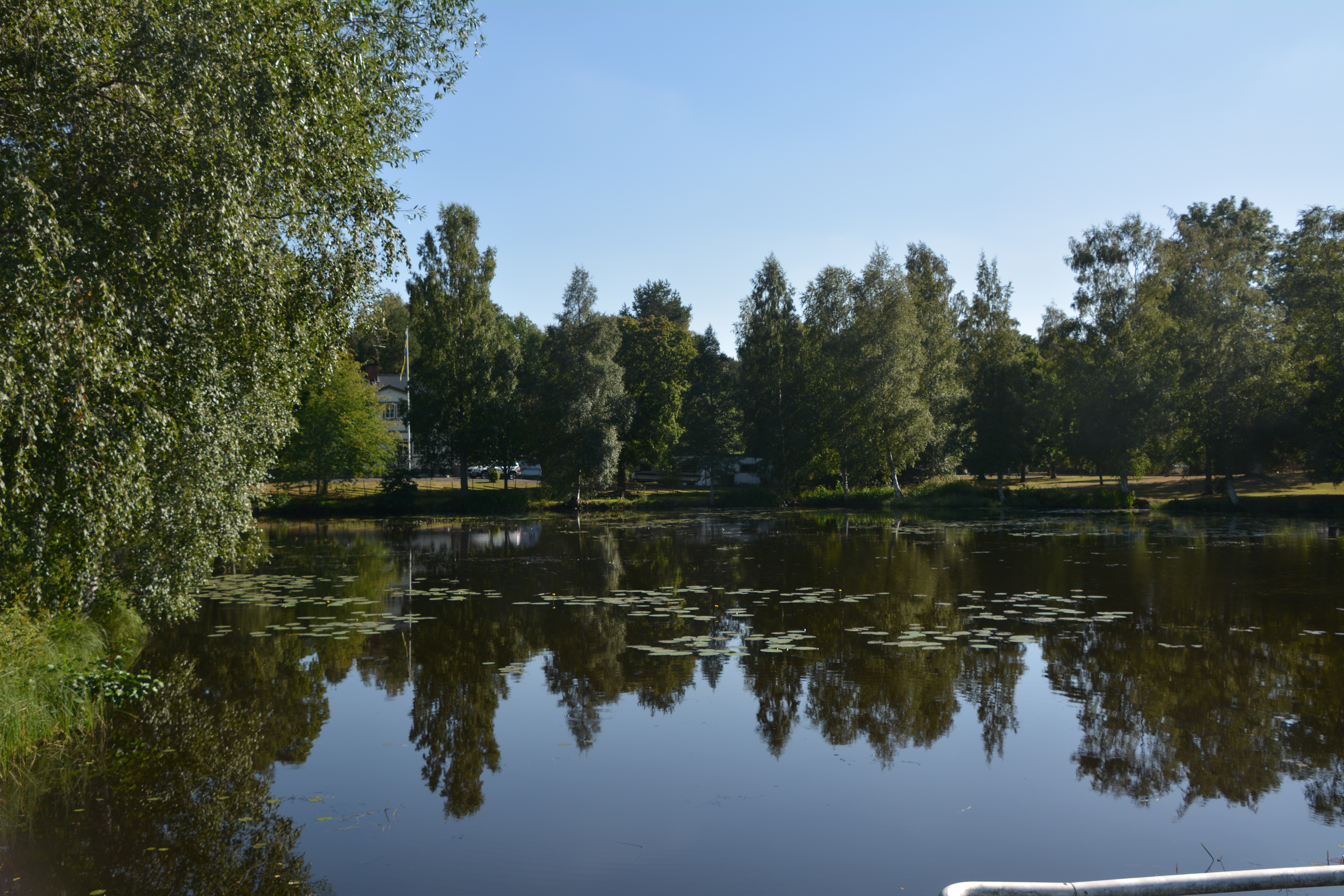 Pilabo kvarndamm, Smålands Anneberg